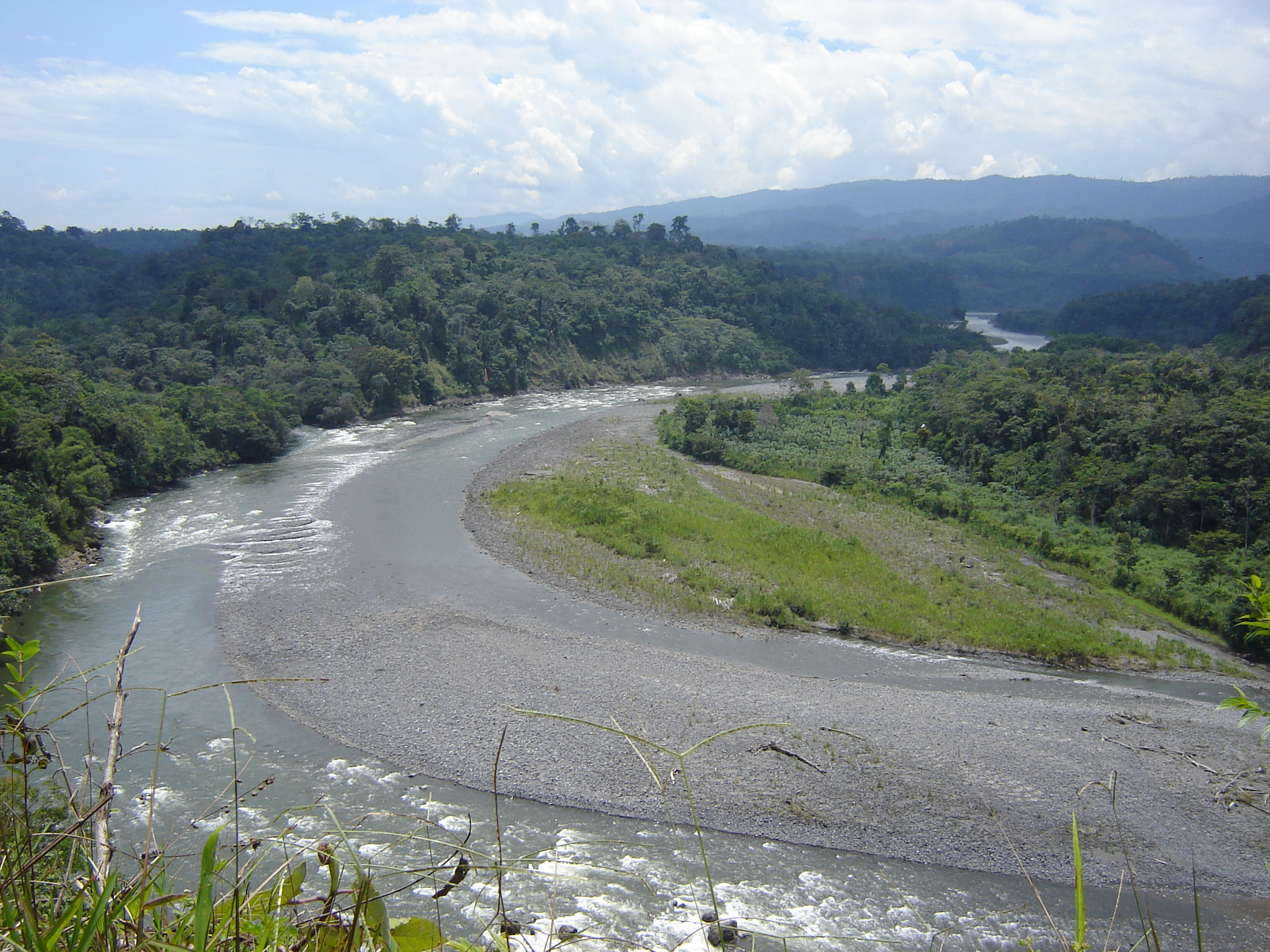 Upano river, Logroño, Ecuador